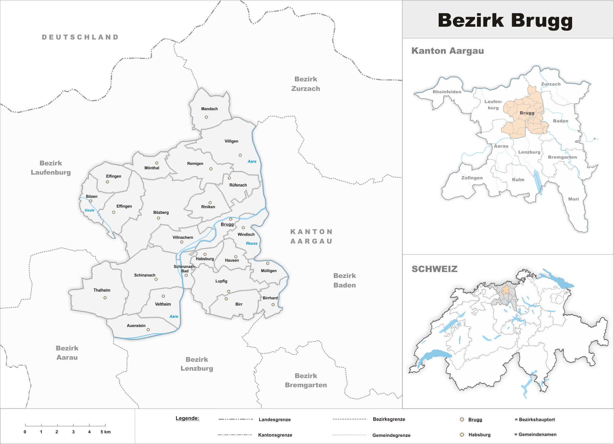 Municipalities in the district of Brugg